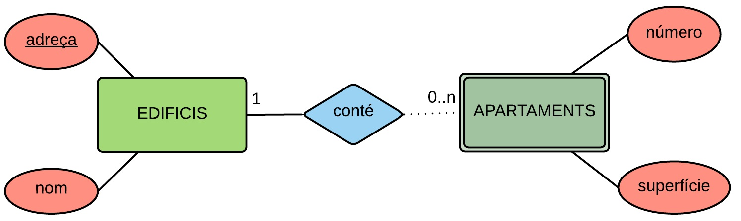 Diagram showing an strong entity (buildings) and a weak (apartments) with their own attributes. Used in catalan's wikipedia for the article Entity-Relationship Diagram